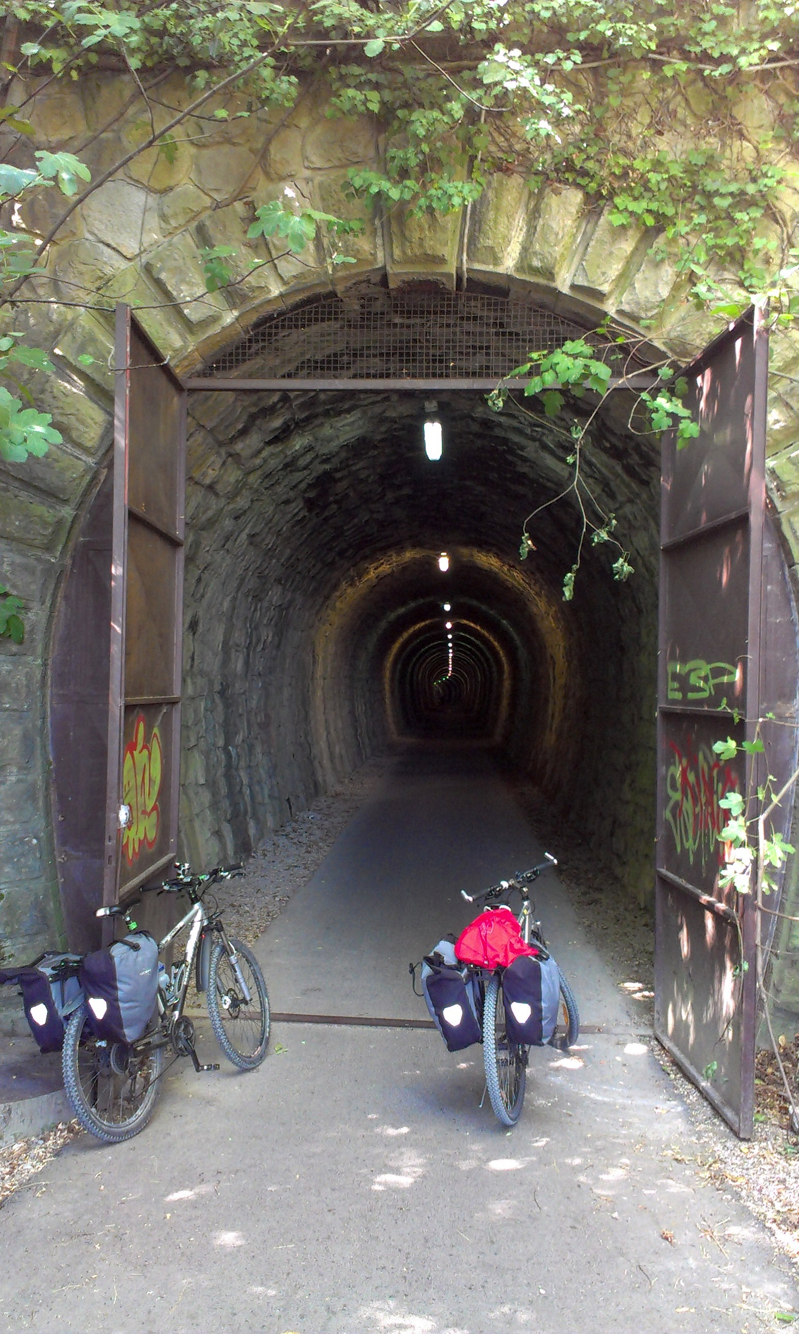 Koper-Izola/Parenzana bike trail with tunnels.